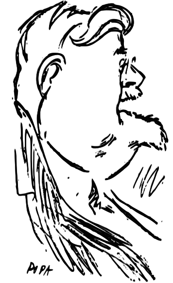 Caricature of the Romanian critic and academic Mihail Dragomirescu.